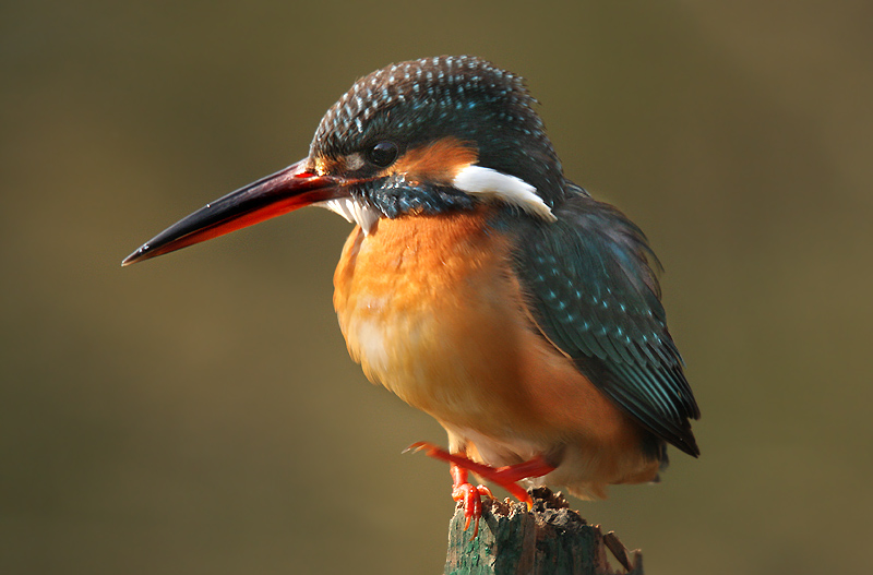 Alcedo atthis